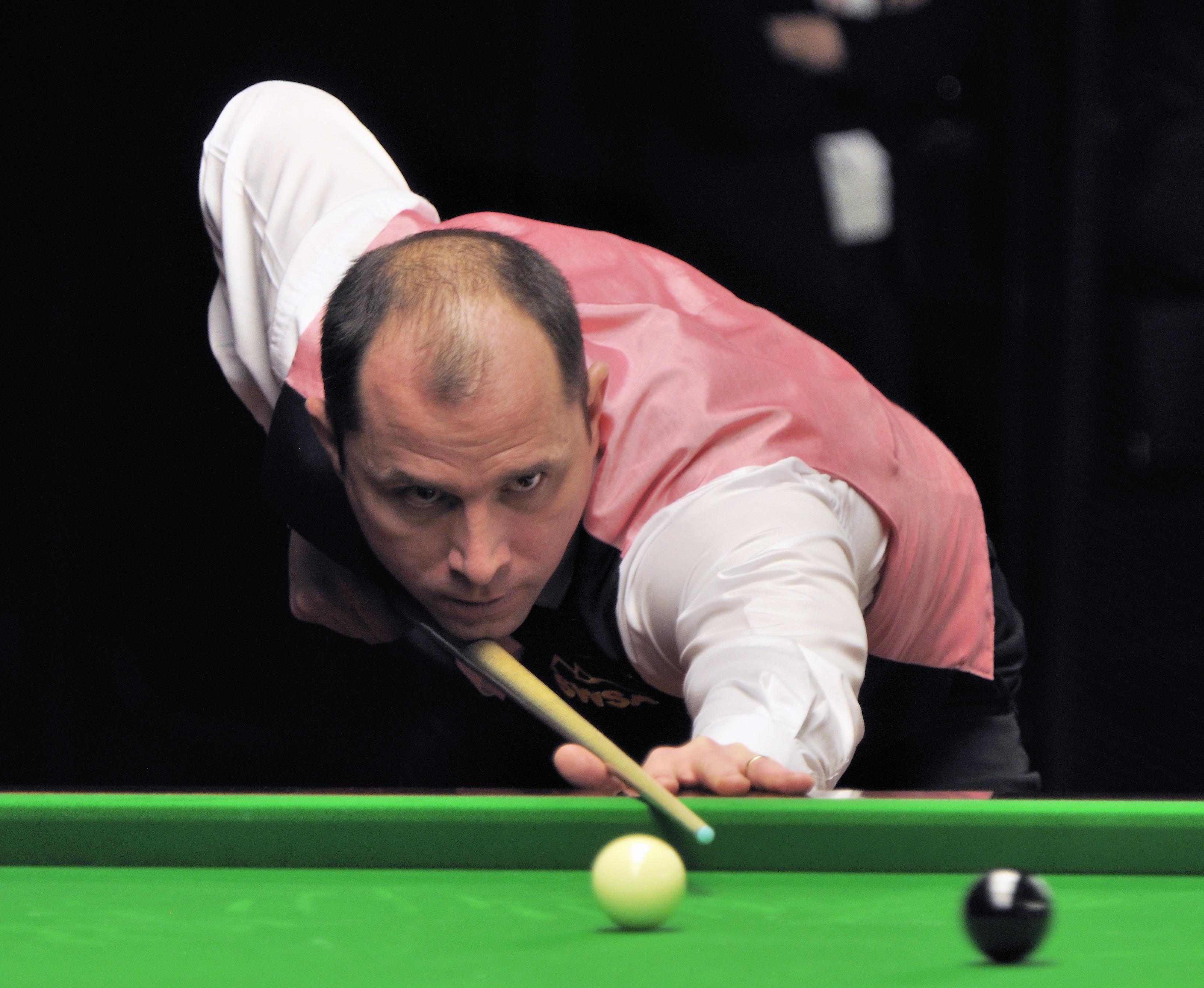 Picture taken in Berlin during the Snooker German Masters in 2014. Joe Perry.